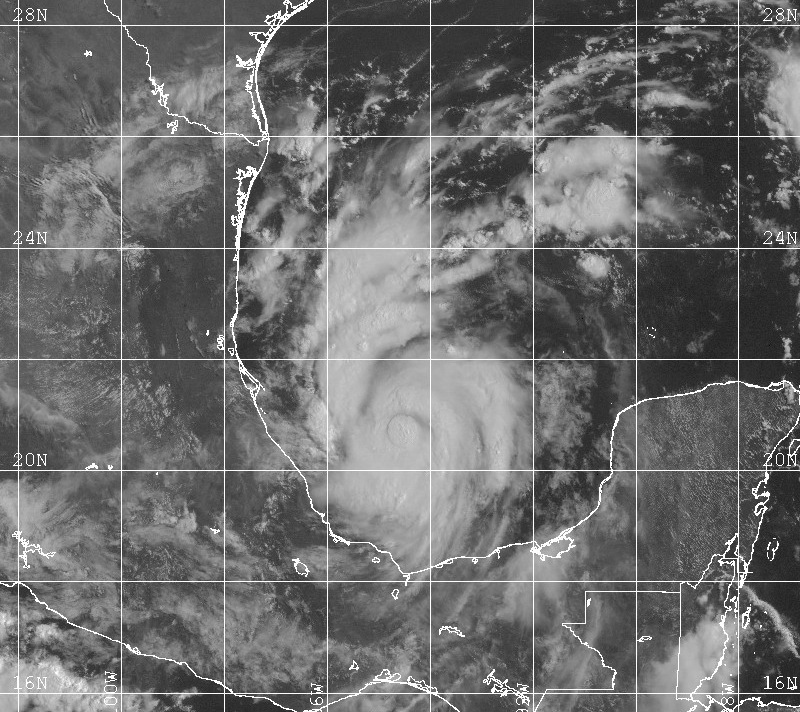 Tropical Storm Bret intensifying on August 20, 1999